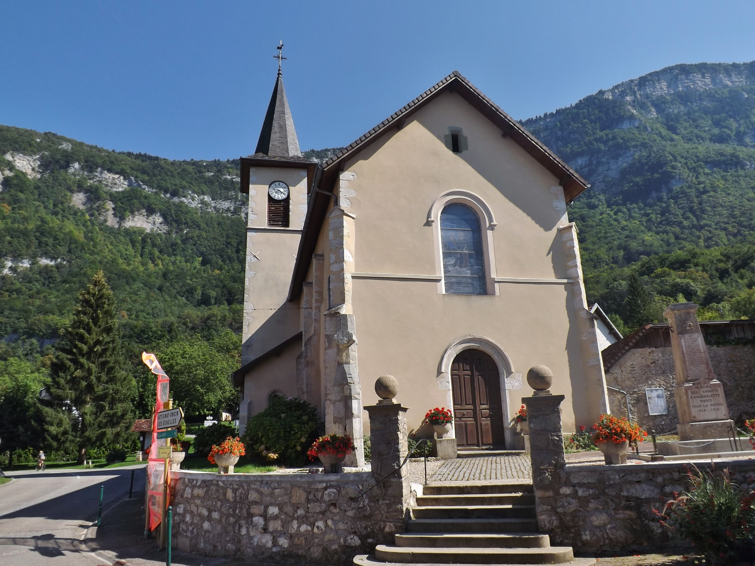 Sight of the church of Aiguebelette-le-Lac village, in Savoie, France.